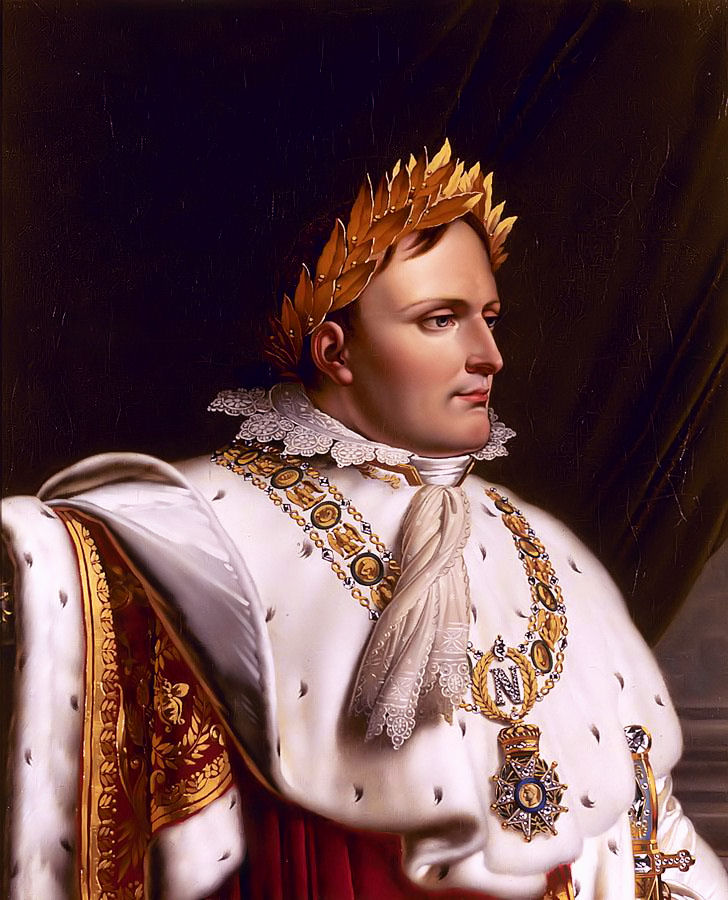 Portrait of Napoleon in Coronation Robes (detail)